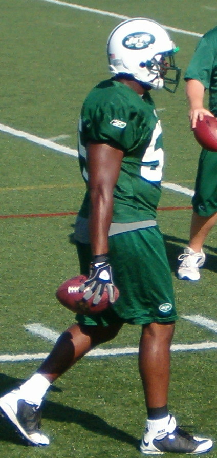 Jamaal Westerman during practice.